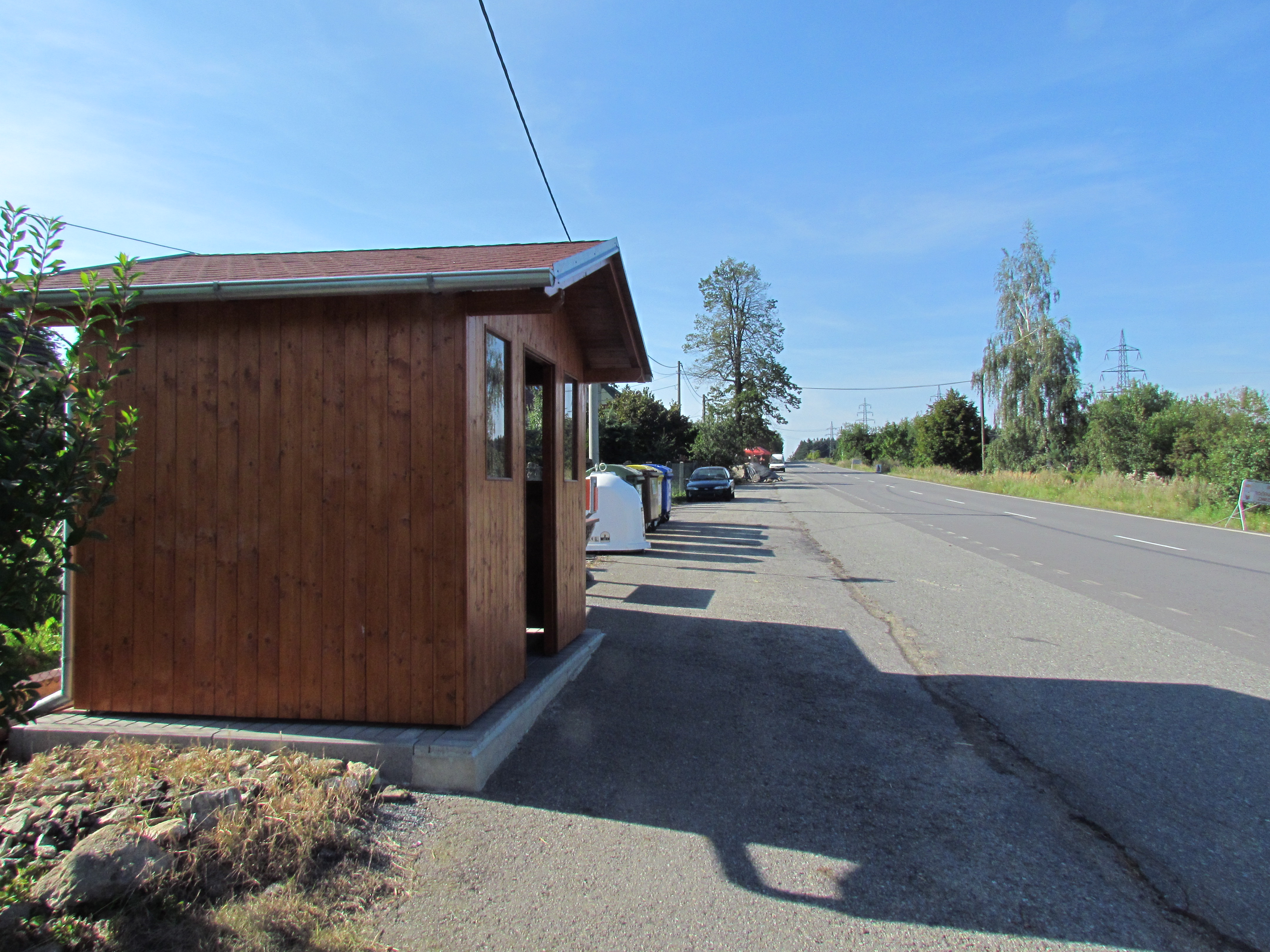 Center of Nová Brtnice, Zašovice, Třebíč District.